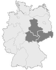 "Middle Germany" is not central Germany. This public domain image was made by :de:user:Wikiabg for public domain.